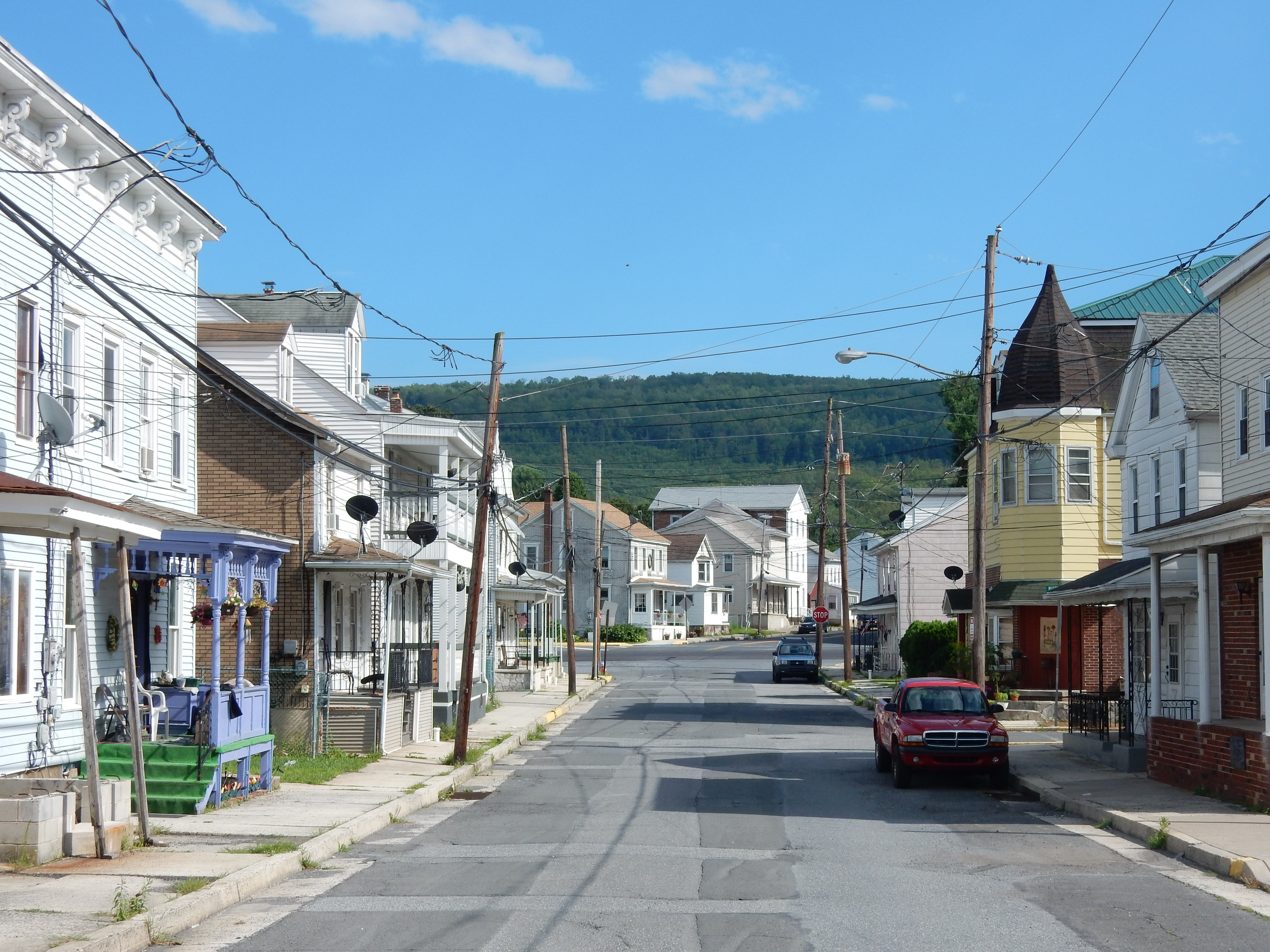 Main St., Middleport, Schuylkill County, Pennsylvania. Looking sourth towards Union St. (U.S. Route 209).